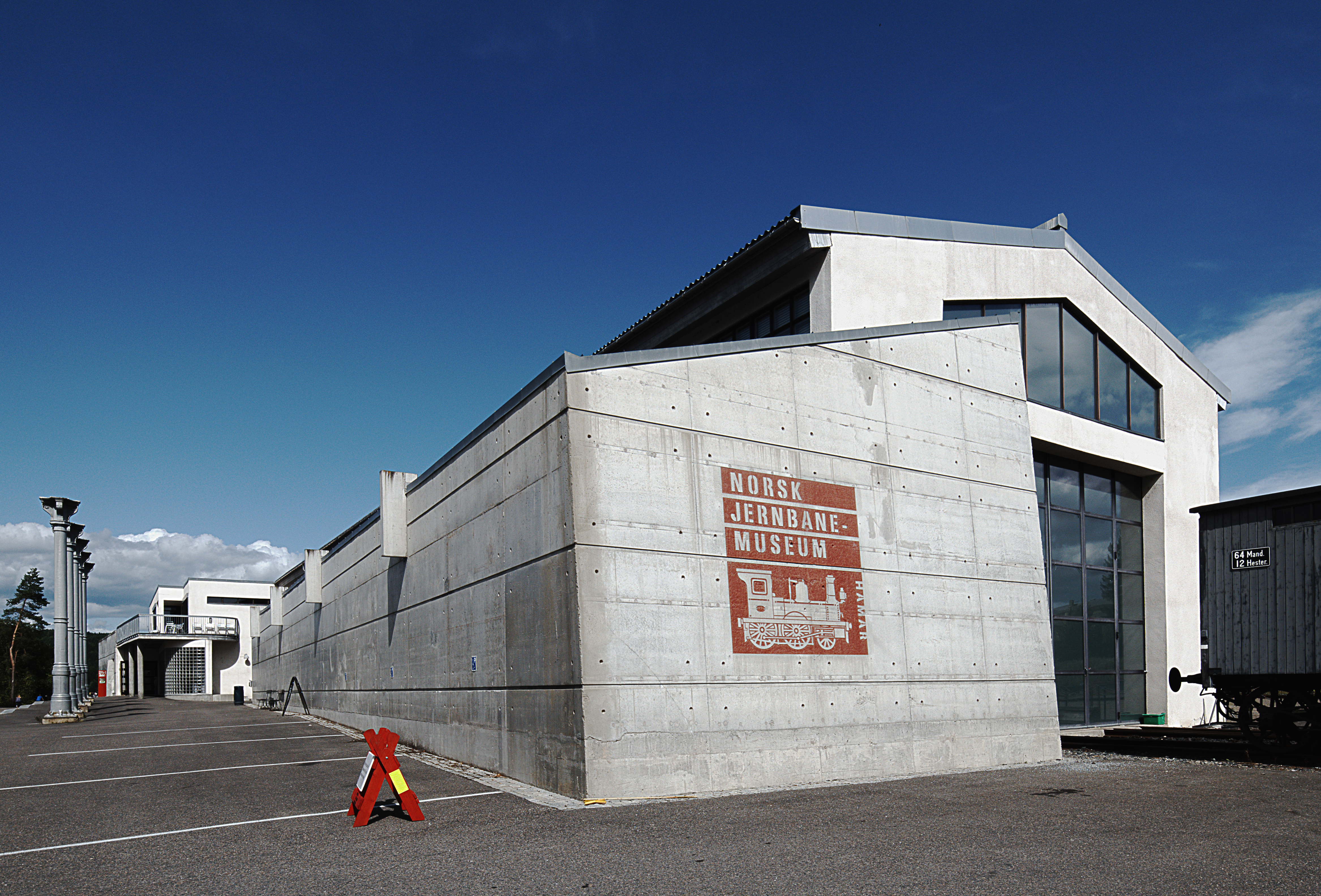 Norwegian Railroadmuseum, Hamar. 2014